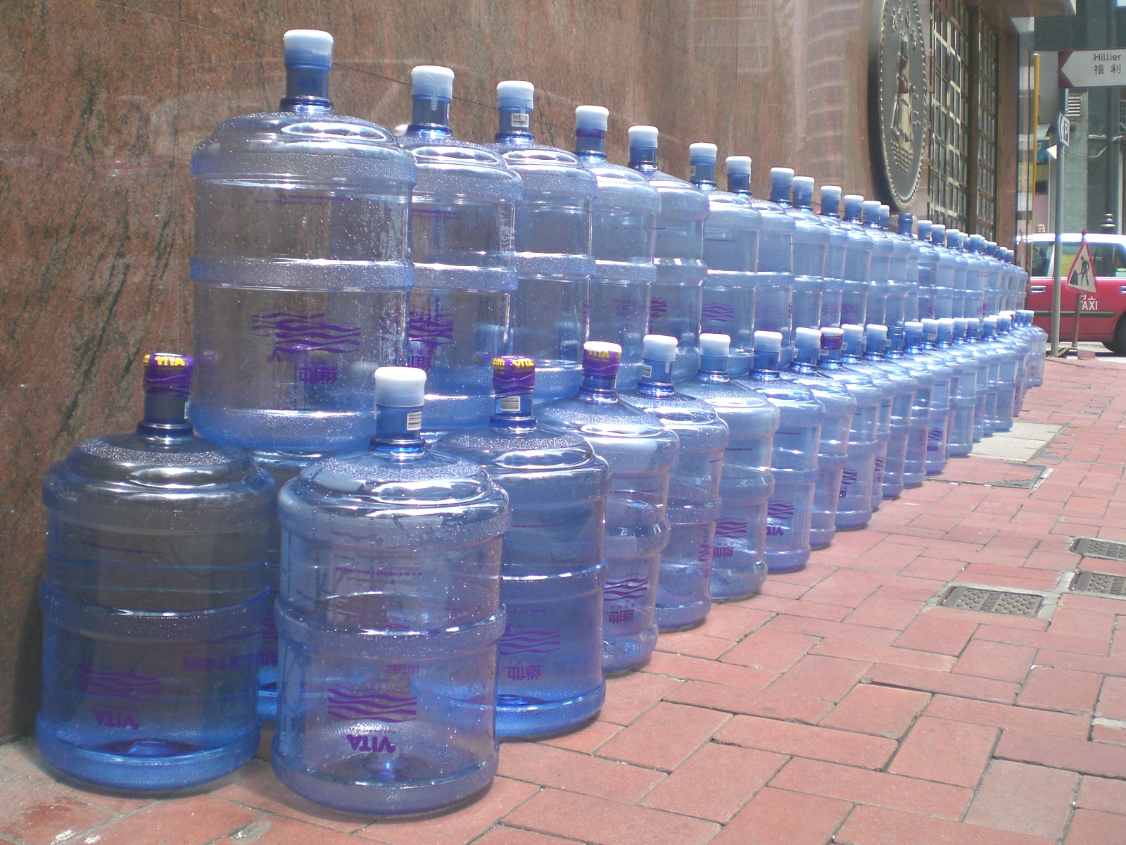 The following is the original description: 描述摘要 描述摘要 來源 原出處 自拍 日期 日期 如下 作者 作者 User:DWatdonSHAM 許可 版權許可資料 Category:香港圖像